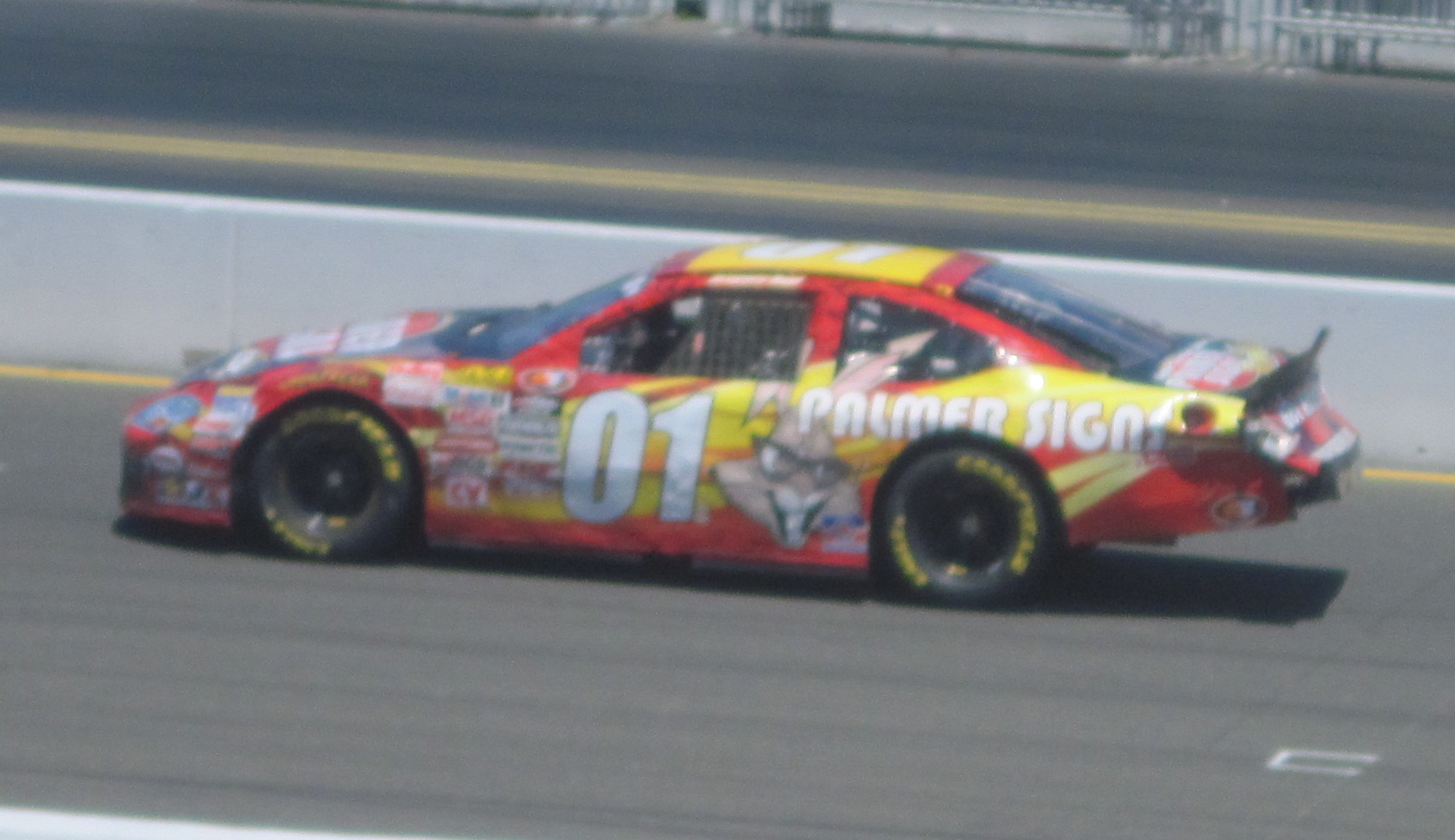 Greg Rayl's No. 01 Palmer Signs Ford at Infineon Raceway in 2011